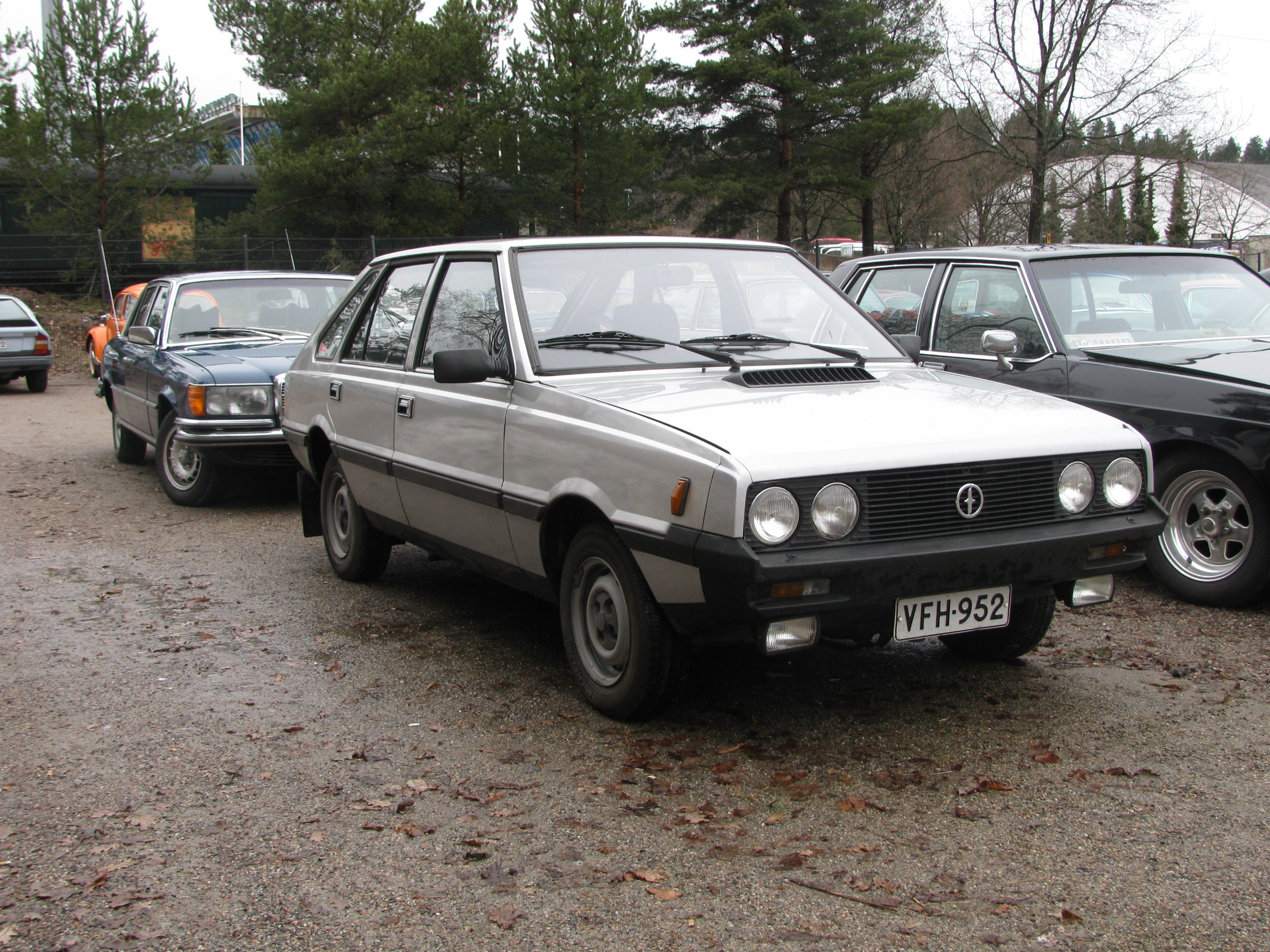 FSO Polonez MR'87, Classic Motor Show parking lot, Lahti, Finland